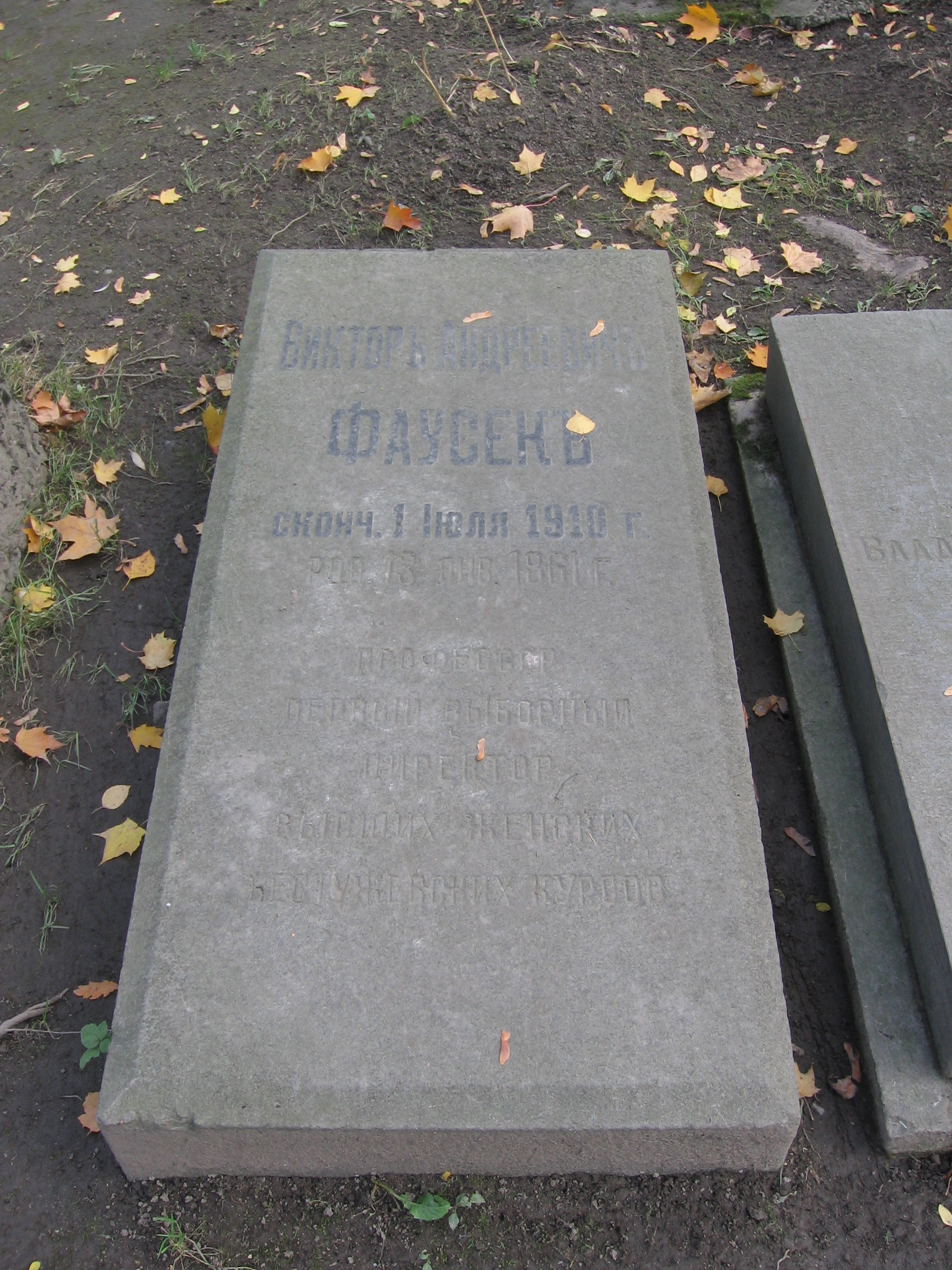 Grave of Victor Fausek